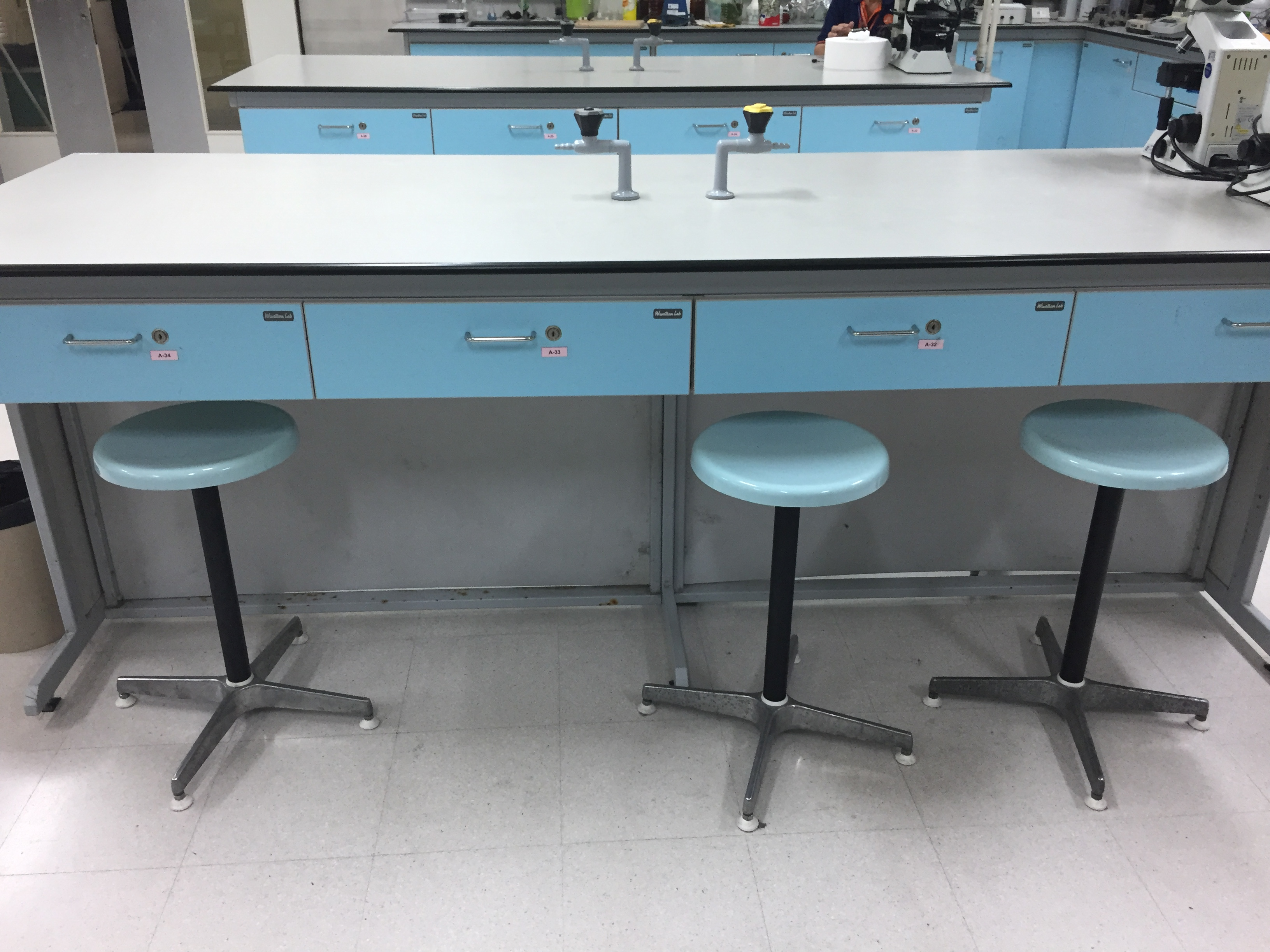 Side shot of a lab workspace